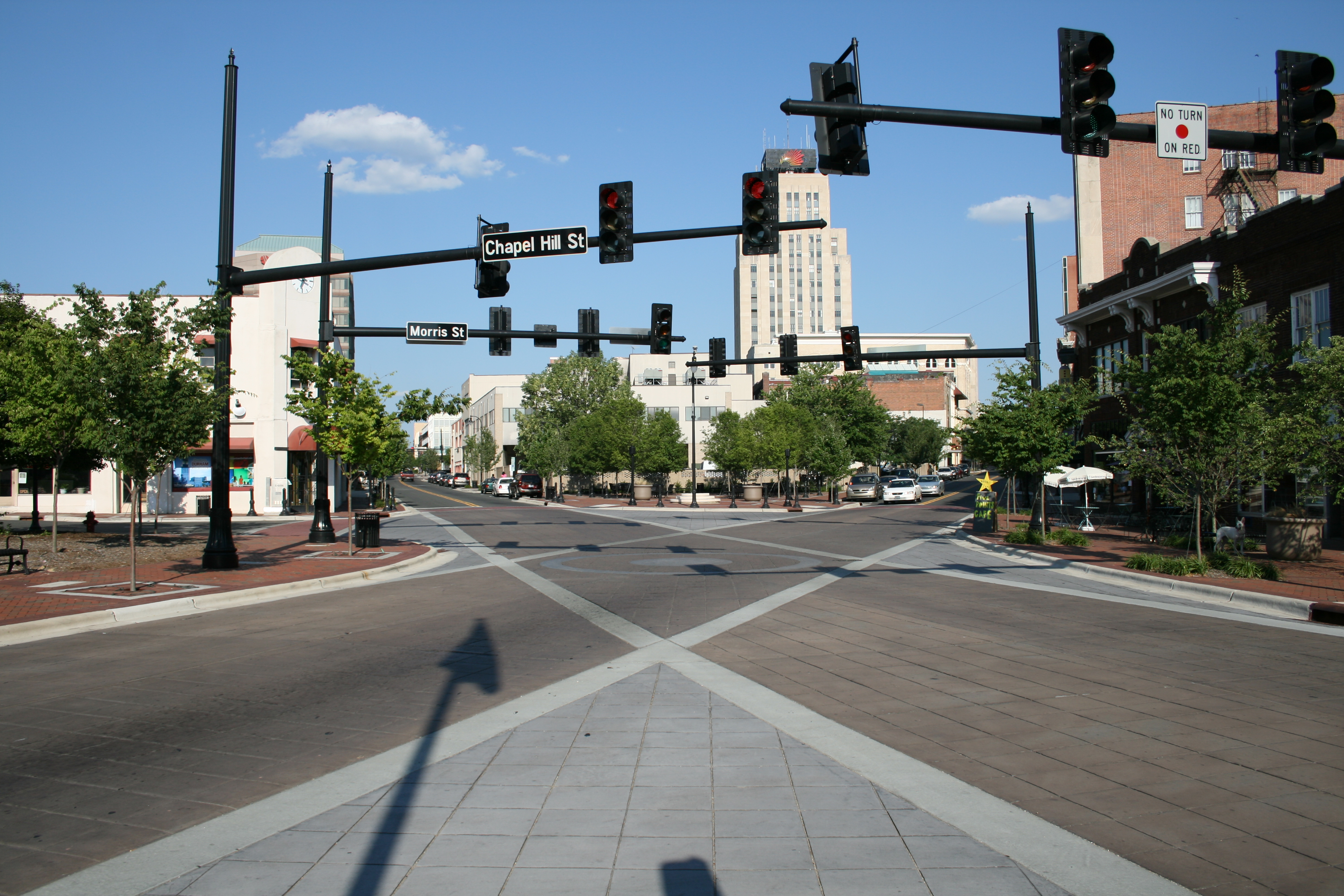 The intersection of Main St, Chapel Hill St, and Morris St in downtown Durham, North Carolina (known as "Five Points") shortly after renovation.